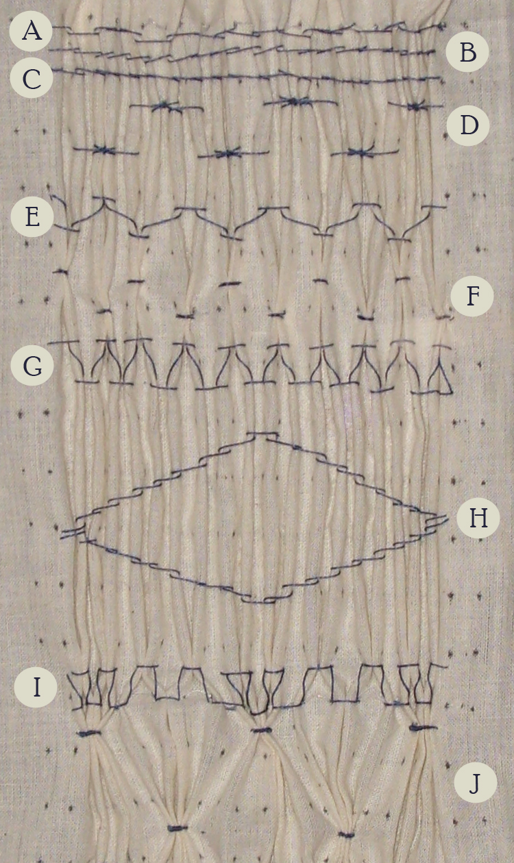 A demonstration of smocking embroidery. Stitches labeled as follows: A-cable stitch, B-stem stitch, C-outline stitch, D-cable flowerette, E-wave stitch, F-honeycomb stitch, G-surface honeycomb stitch, H-trellis stitch, I-vandyke stitch, J-buillion stitch. Original work designed and made by Durova.